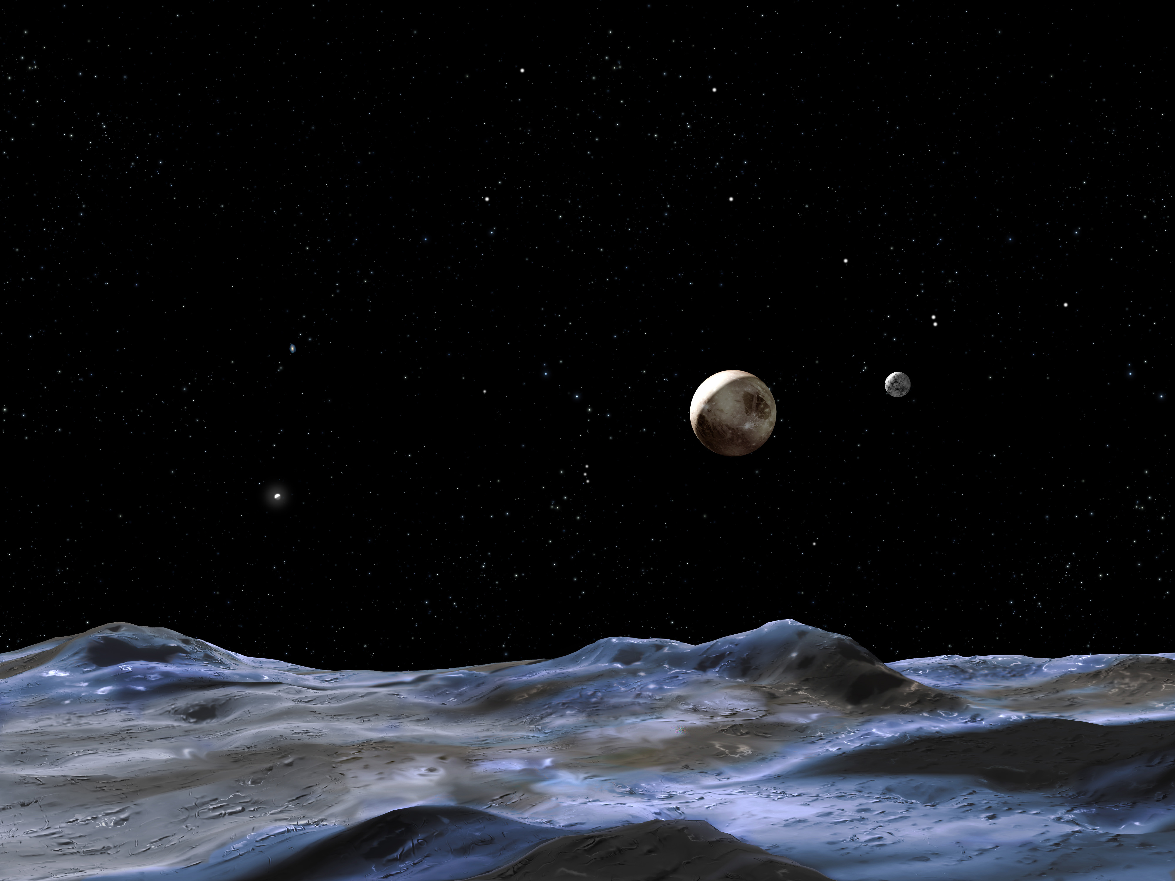 The image shows a view from from the surface of one of the moons of Pluto. Plus is the large disk at center, Charon is the medium-sized object to the right of Pluto, and an additional moon is the bright dot to the far left of Pluto. The remaining two known moons are not (intentionally) depicted.